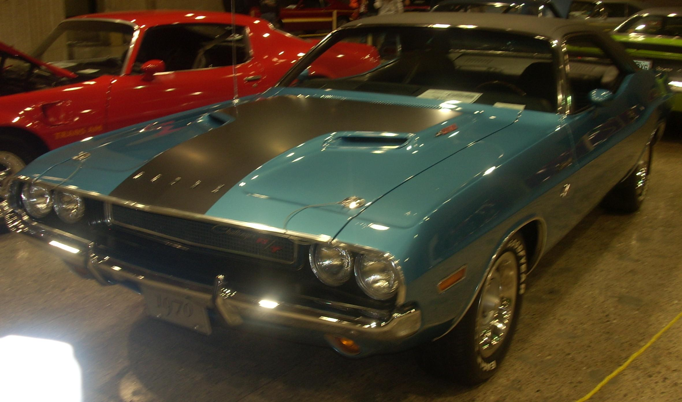 1970 Dodge Challenger photographed at Auto classique Montréal 2008.